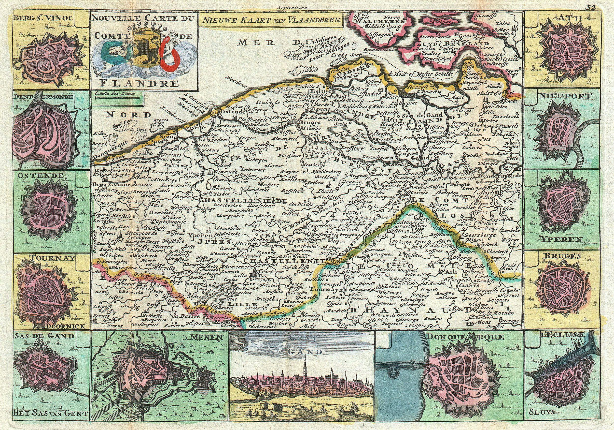 A stunning map of Flanders, Italy first drawn by Daniel de la Feuille in 1706. This region includes portions of what is today Belgium and Holland. Surrounded by thirteen views and plans of important villages and fortresses in this region. From top right in a clockwise fashion these include Ath, Nieuport, Yperen, Bruges, L’Ecluse, Donquerque (Dunkirk), Gent (Gand), Menen, Sas de Gand (He Sas van Gent), Tournay (Dooornick), Ostende, Dendermonde and Berg St. Vinoc. Title in upper right quadrant in both French and Dutch surrounding the Flemish armorial shield. This is Paul de la Feuille’s 1747 reissue of his father Daniel’s 1706 map. Prepared for issue as plate no. 38 in J. Ratelband’s 1747 Geographisch-Toneel .